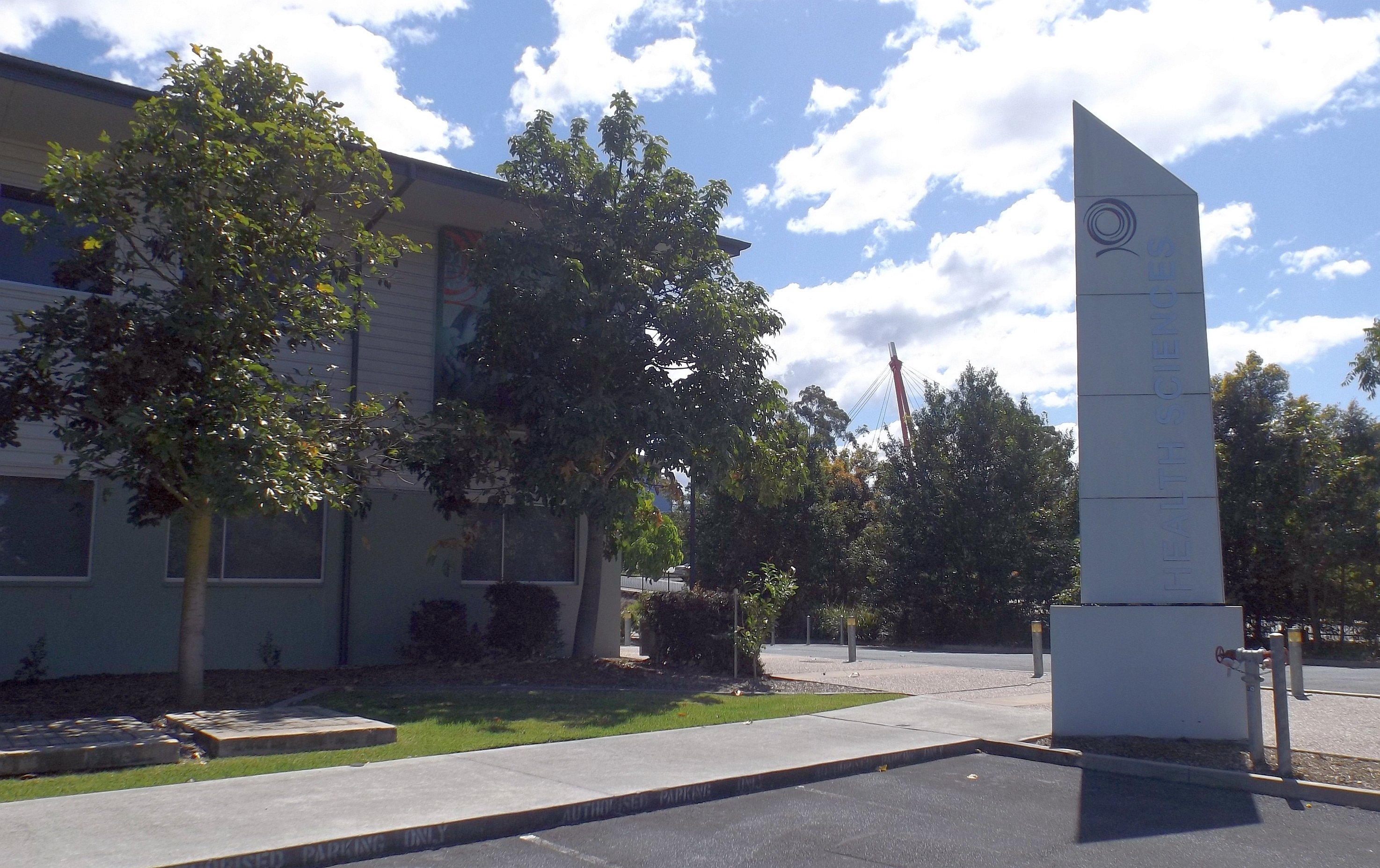 Photo of sign and buildings at the Queensland Academy for Health Sciences, Southport, Gold Coast City, Queensland, Australia.